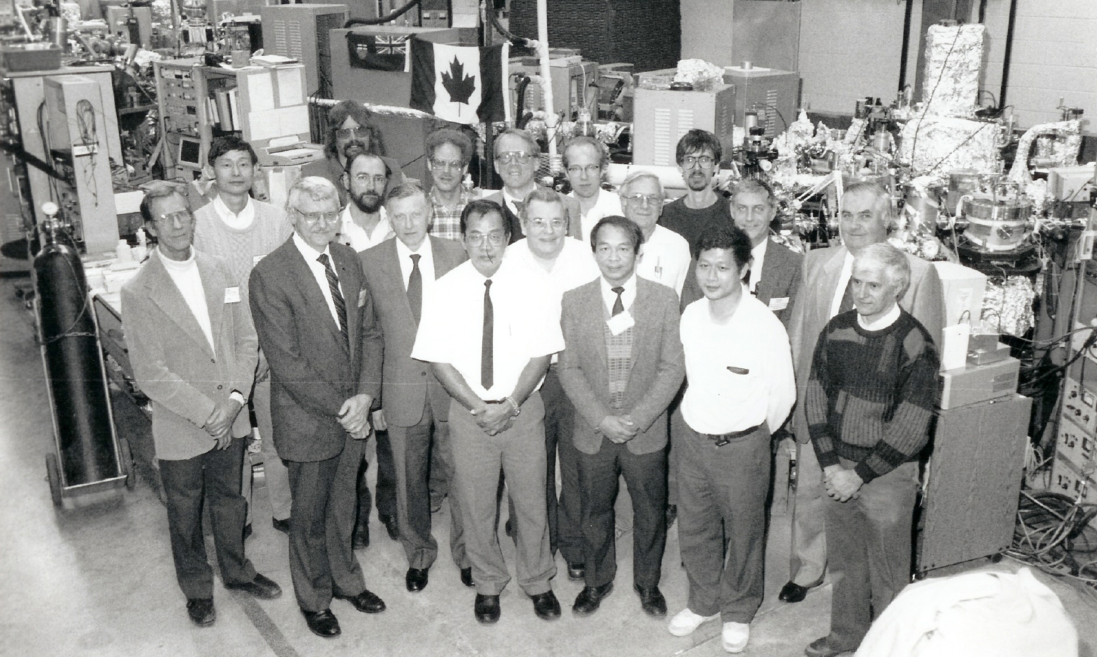 1990. Opening ceremony for the Canadian DCM beamline at Aladdin.